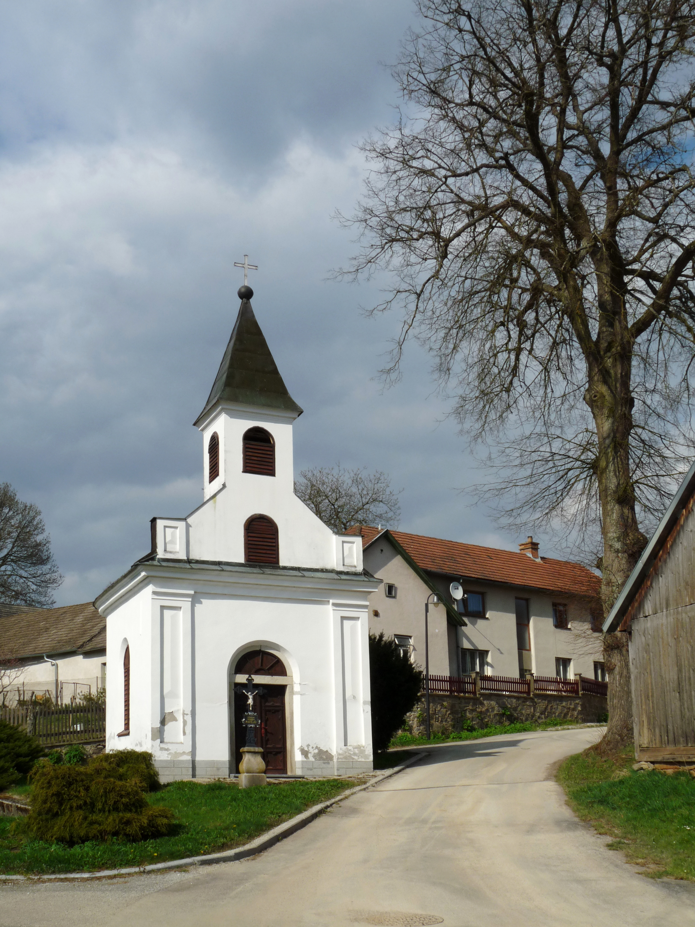 Chapel in the village of Hadravova Rosička, Jindřichův Hradec District, South Bohemian Region, Czech Republic.